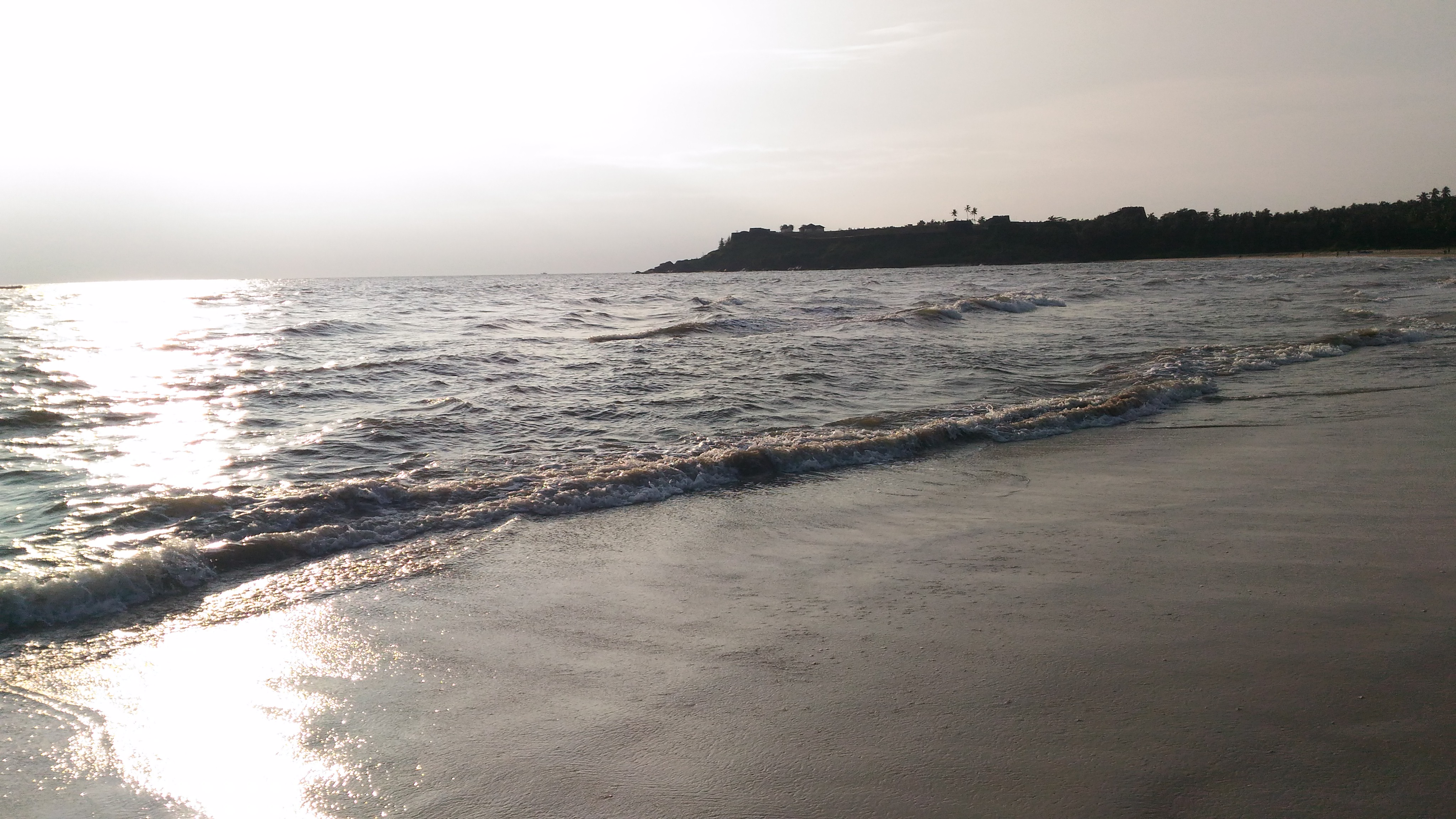 Sunset_beach_Bekal beach, Kasaragod